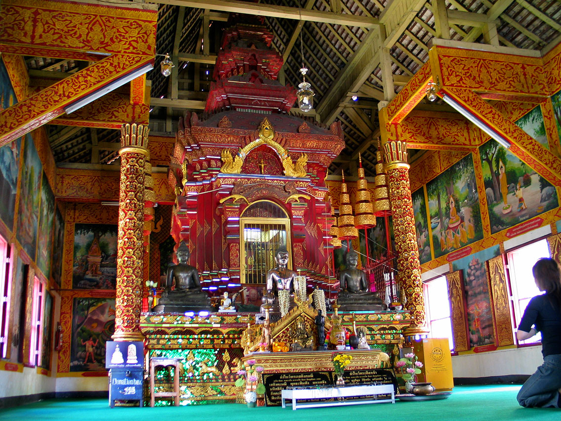 Buddha images of Wat Chiang Man, Chiang Mai, northern Thailand